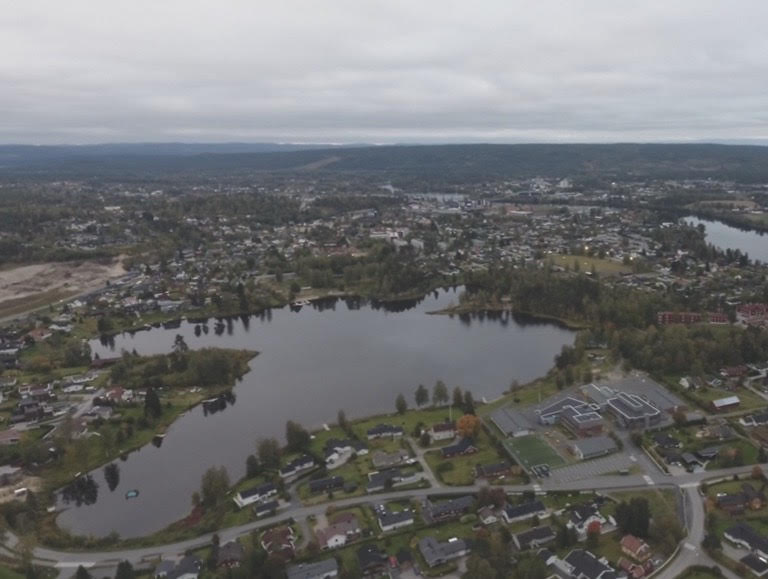 This is sagtjernet, Elverum seen from above.